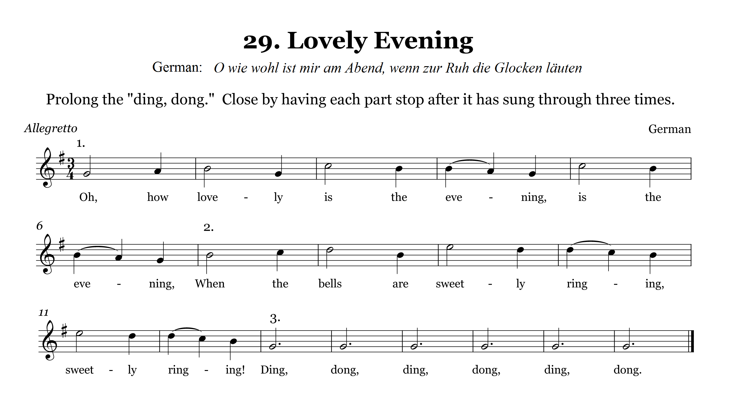 Lovely Evening